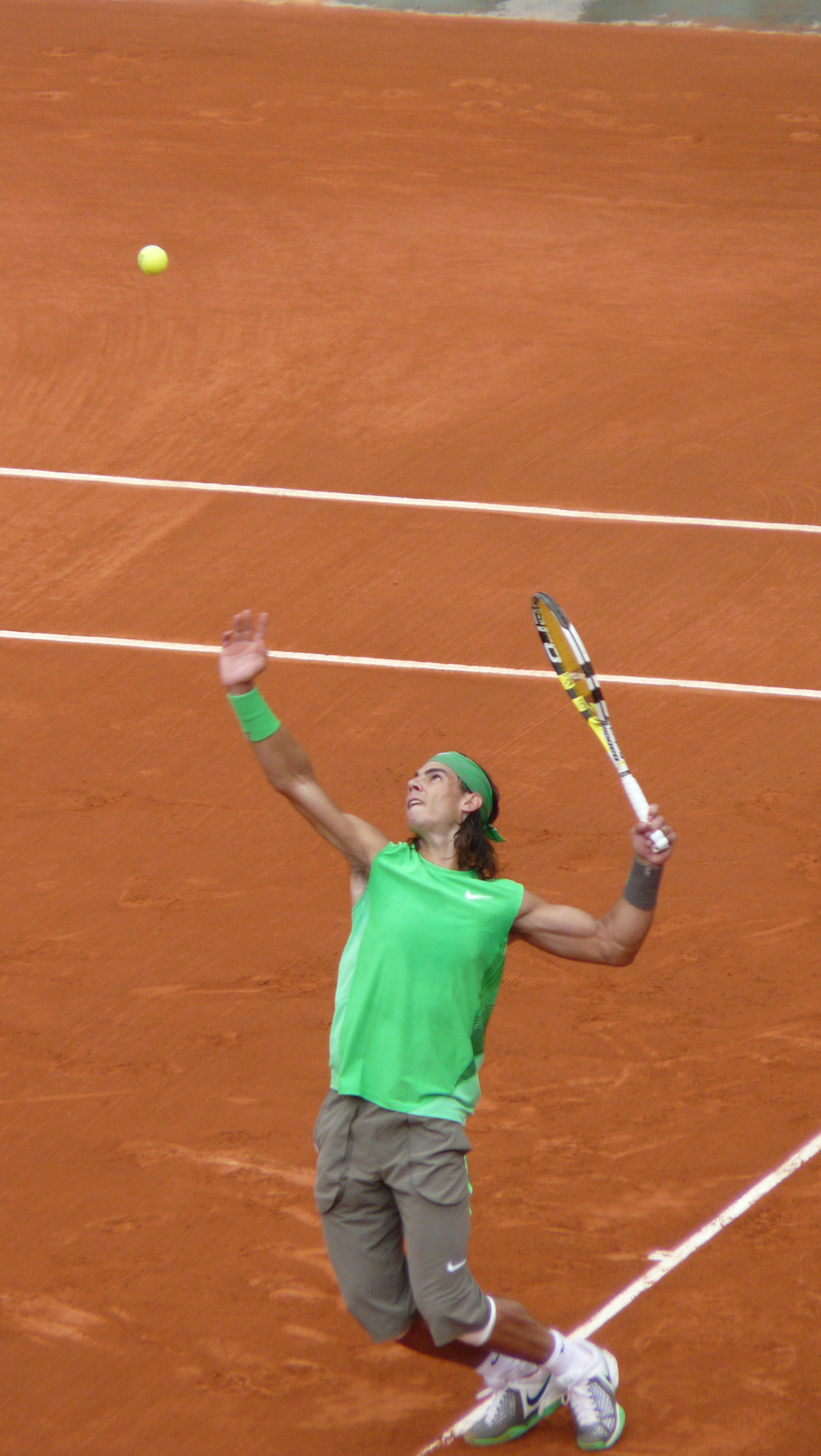 Rafael Nadal against Nicolás Almagro in the 2008 French Open quarterfinals